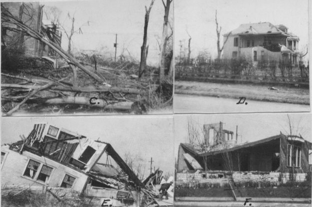 Photos taken after tornado in 1933